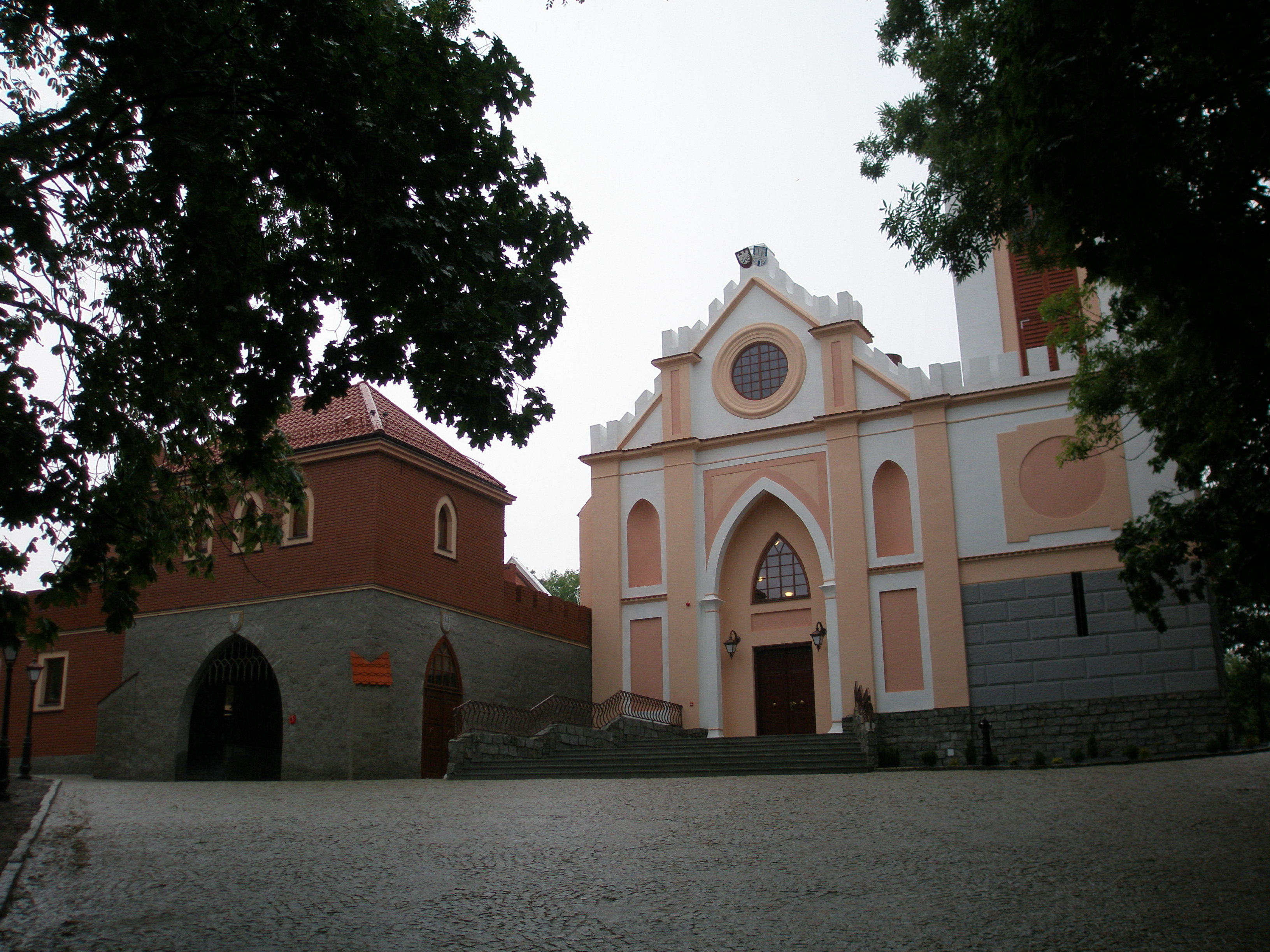 The castle in Gostynin